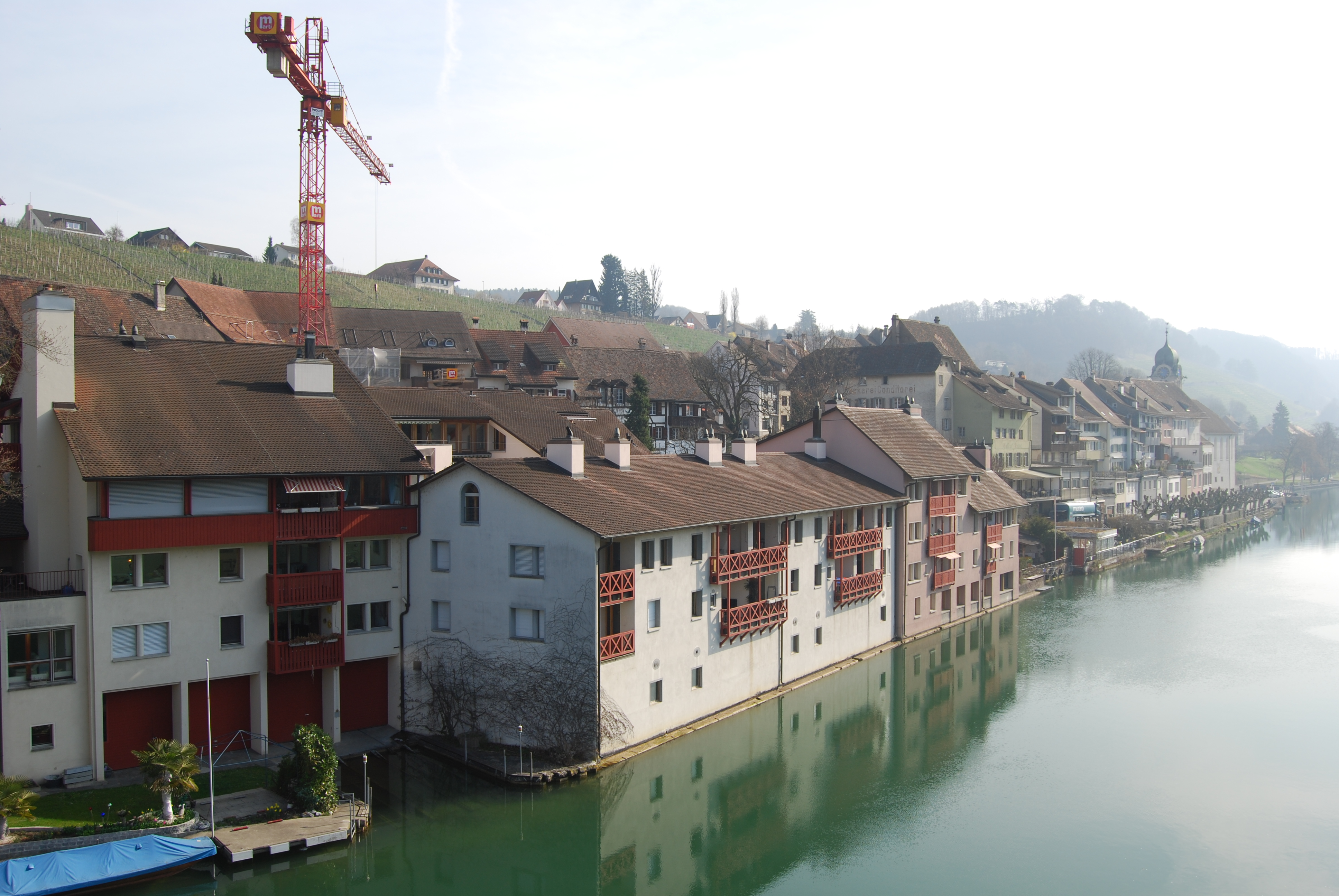 Eglisau, canton of Zürich, Switzerland